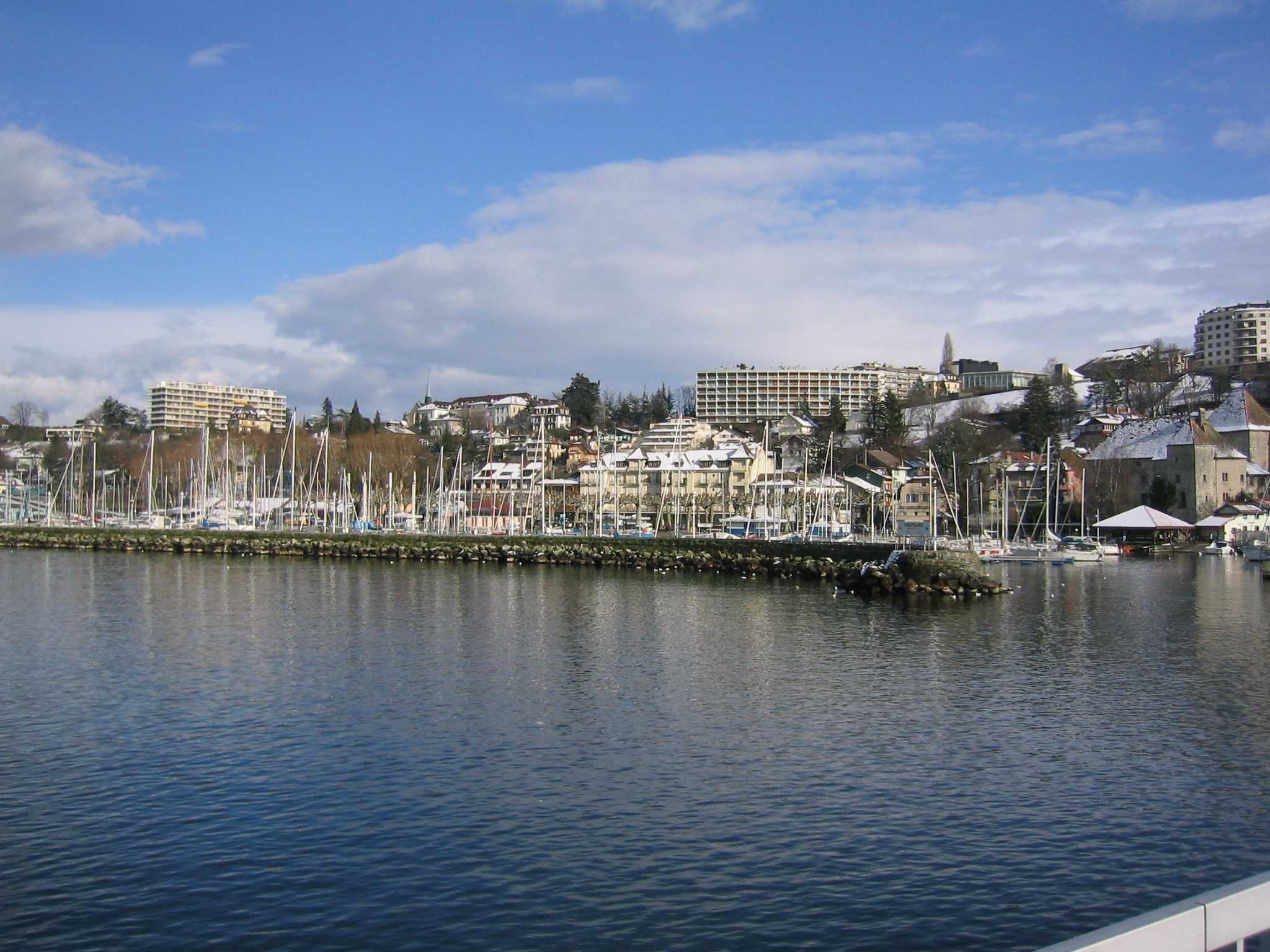 Rives Port at Thonon-les-Bains (Haute-Savoie, France)